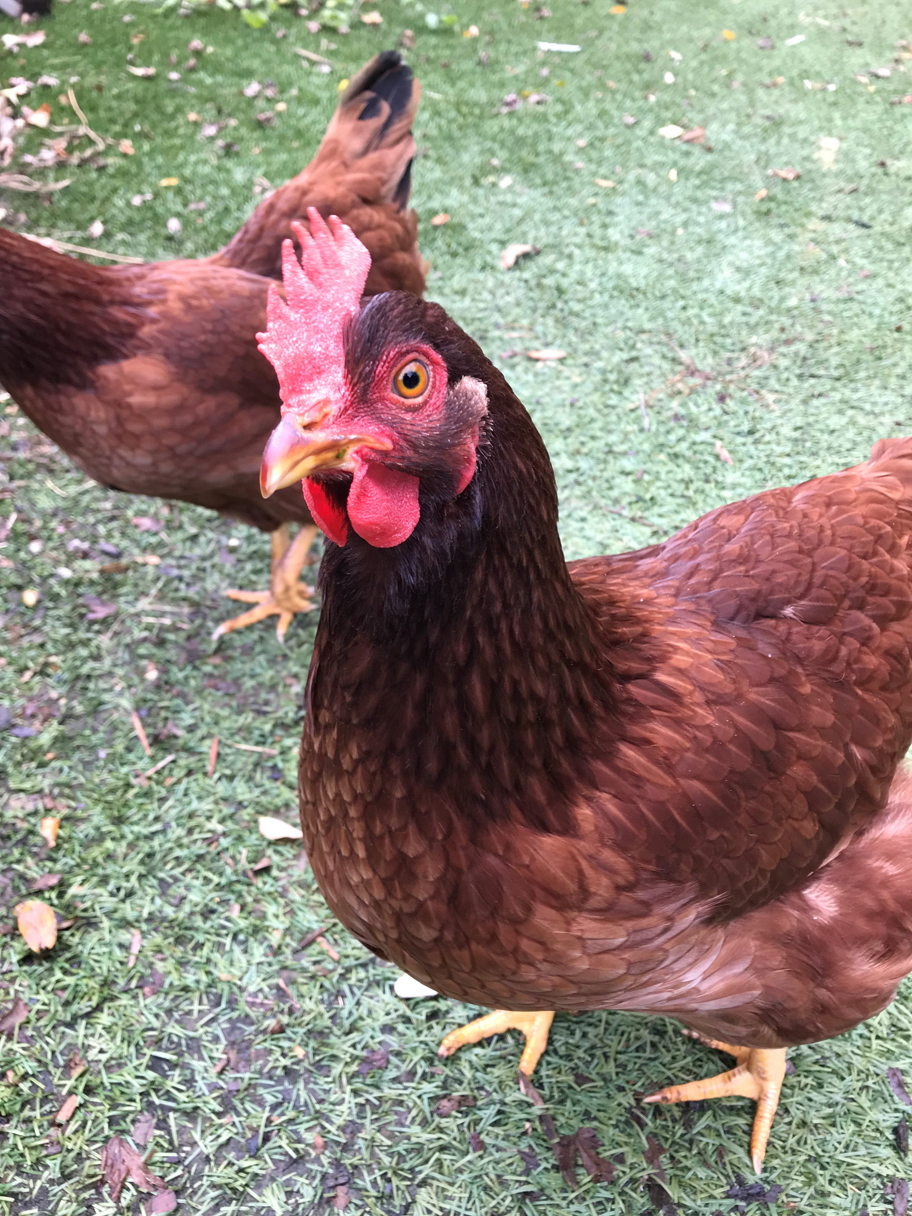 picture of Rhode Island red hen